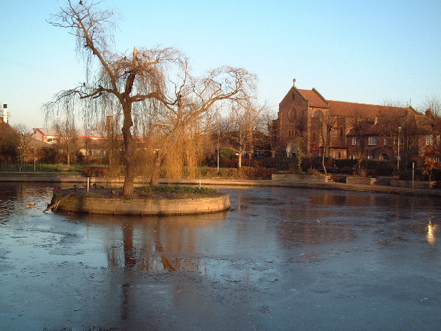 View east across the pond at Feltham Green, Middlesex, while it was frozen. On the right is St Lawrence's Roman Catholic Church.